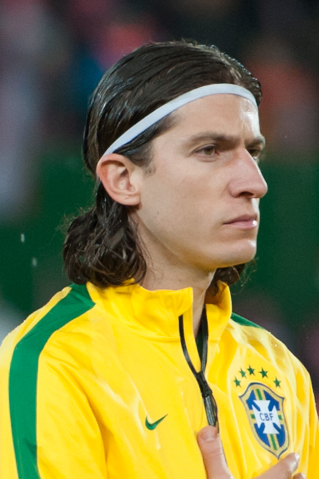 International Friendly Austria - Brazil November 18, 2014: Filipe Luís